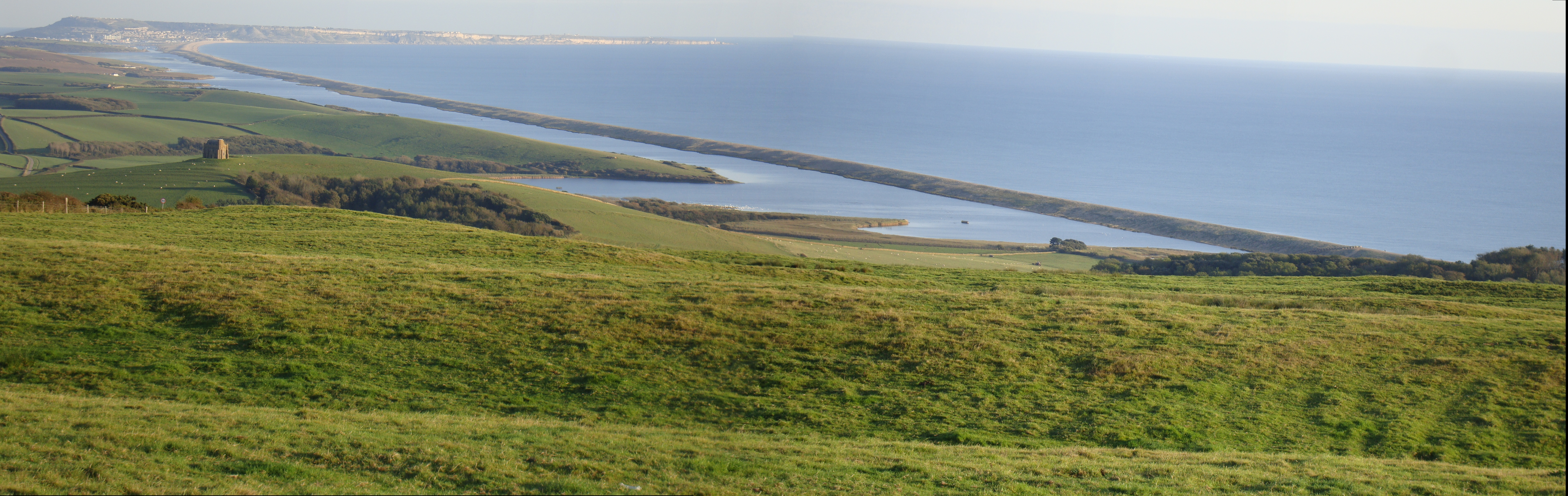 Photograph of Chesil Beach and Portland Bill, looking south-east over Abbotsbury in Dorset